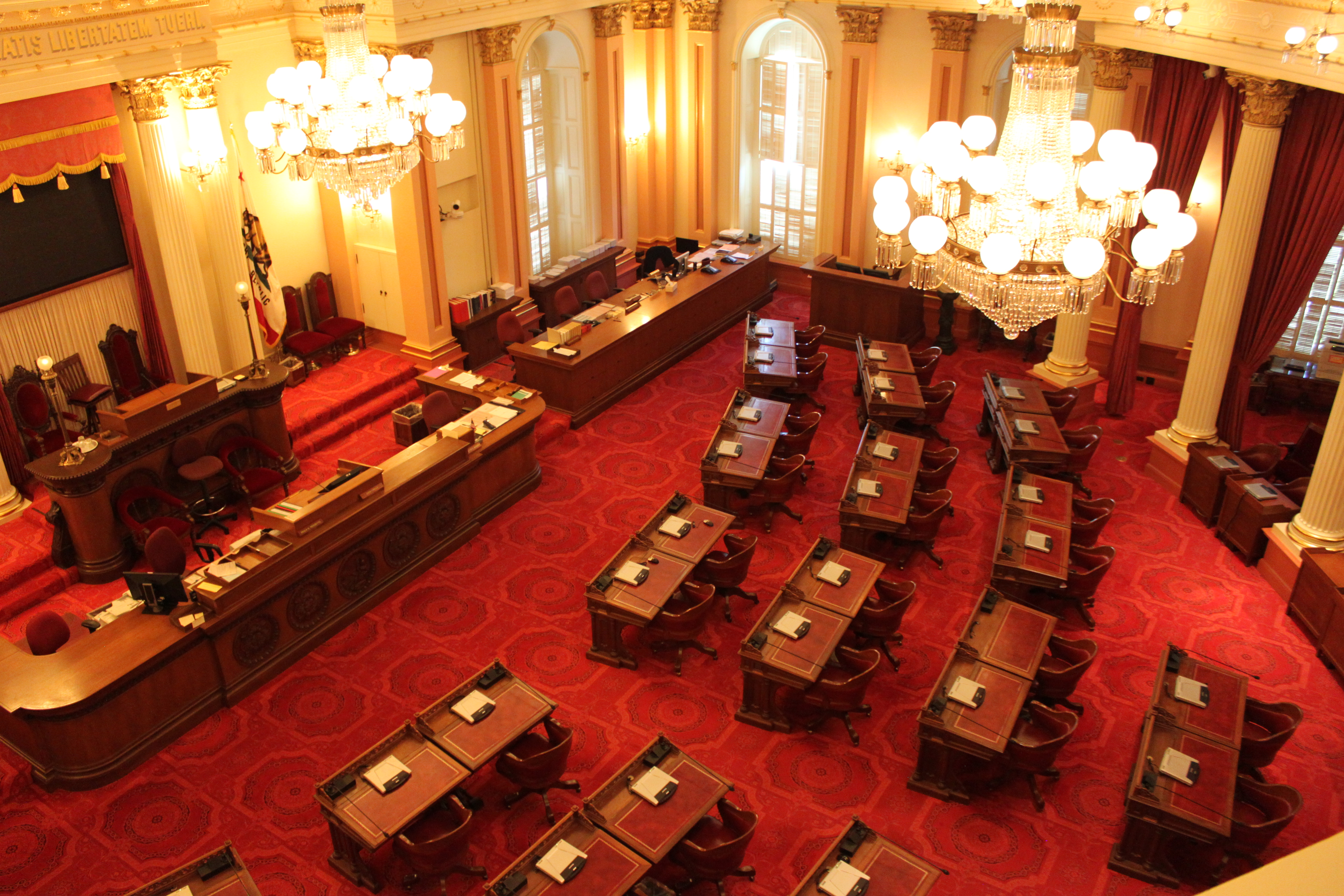 Senate Chamber at the California State Capitol